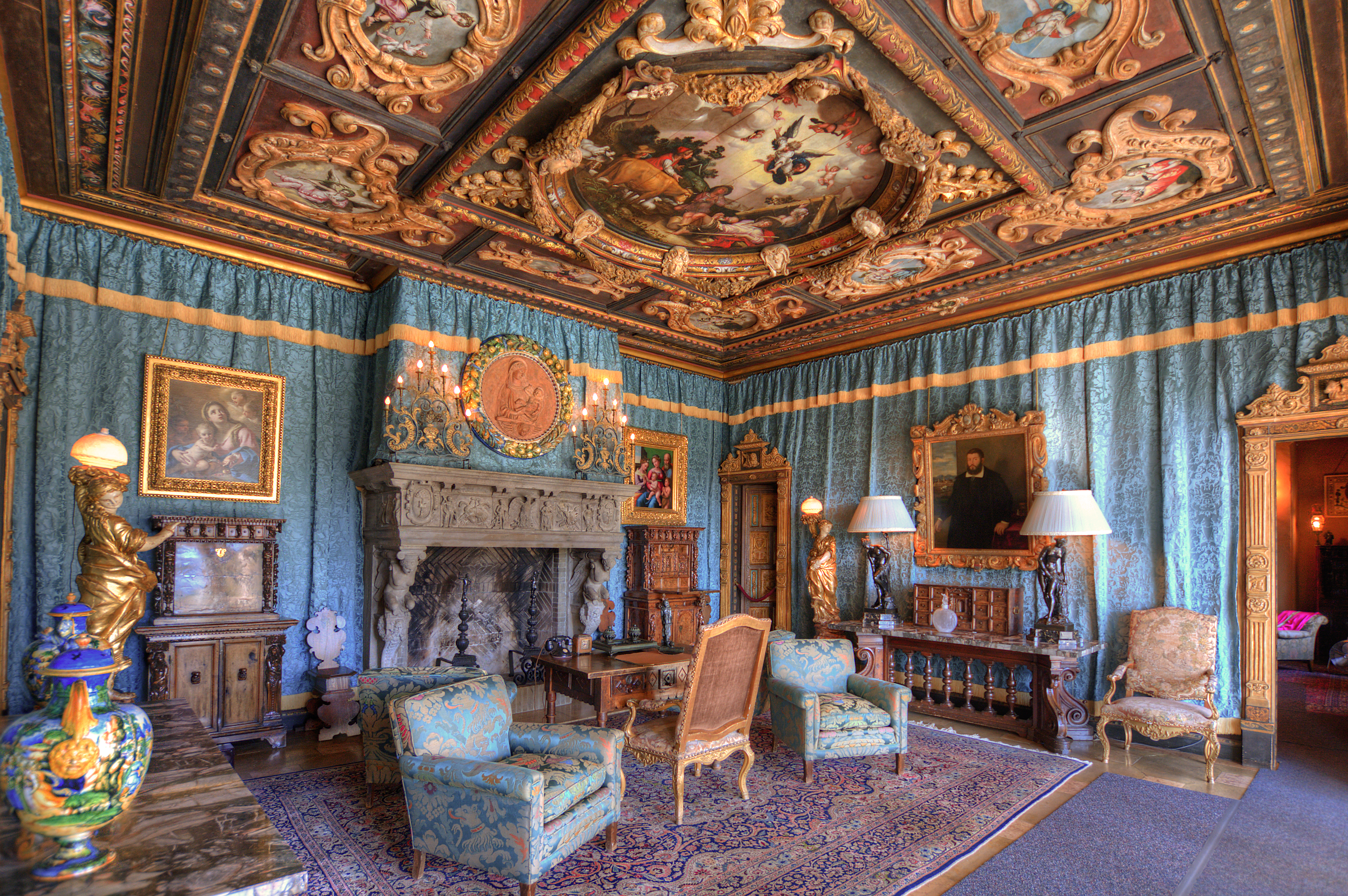 Doge Suite Inspired by the ornate chambers of the Doge’s Palace in Venice, this richly decorated suite of two bedrooms and a private sitting room was assigned to Mr. Hearst’s special guests. They were literally surrounded by museum-quality art, including beautifully painted antique ceilings overhead. An arched marble balcony featuring carved lions— long a symbol of Venice—frames views of the eastern mountains. HDR Capture, hand held, bracketed 3 shots using my 40D. I waited until all the guest left as they moved on to the next room. Its great to be the last in line.